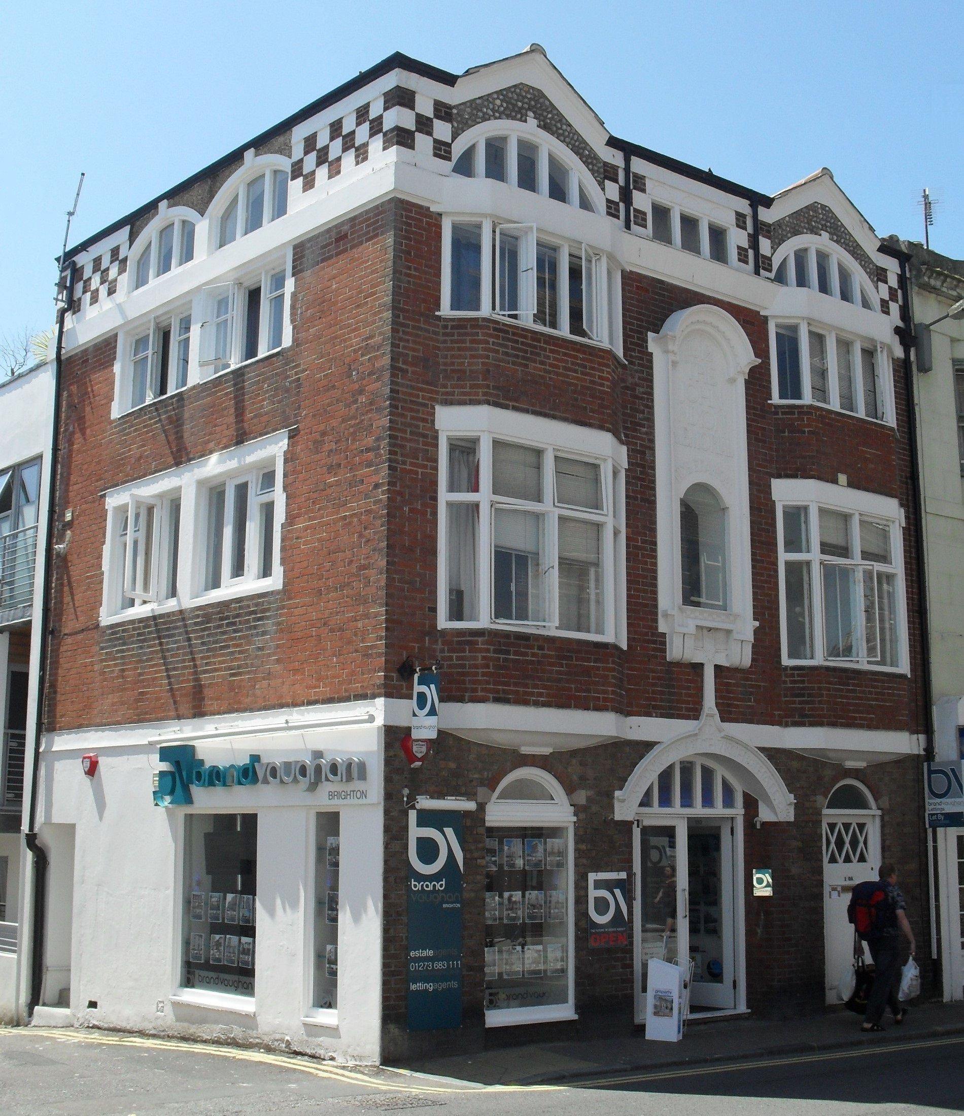 John Nixon Memorial Hall, St George's Road, Kemptown, City of Brighton and Hove, England. A Neo-Jacobean former church hall (now in commercial use) designed in 1912 by an unknown architect.